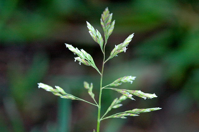 Picture taken in Commanster, Belgian High Ardennes . Species: Poa annua